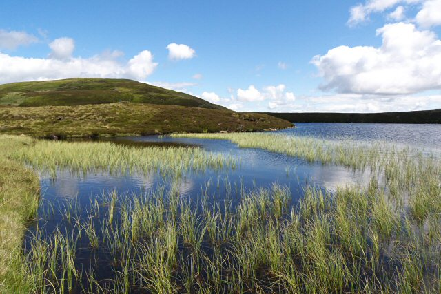 Loch Fender This is an attractive spot when the sun comes out. Meall Dearg rises above the loch 1 Km away.